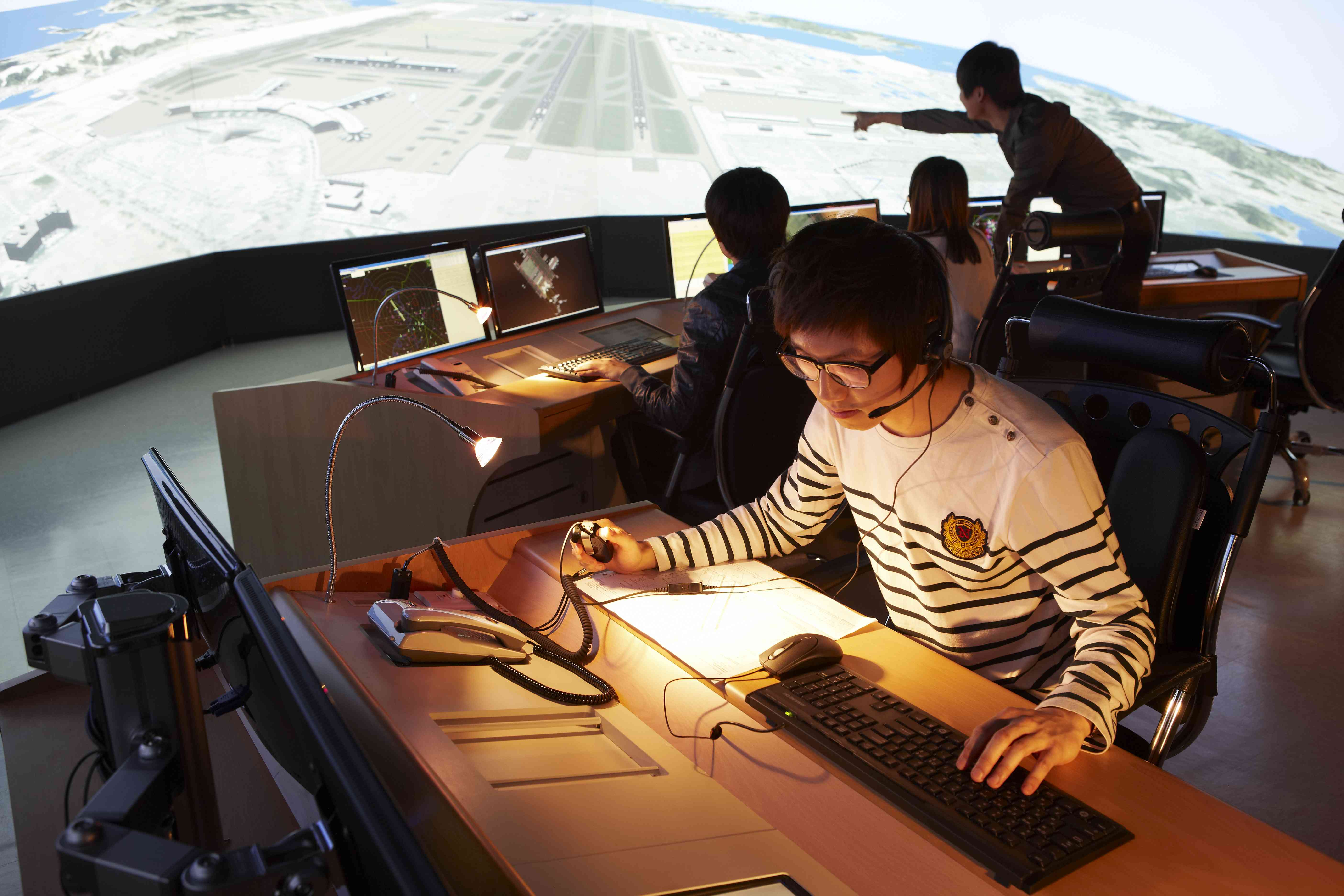 Korea Aerospace University air traffic control laboratory